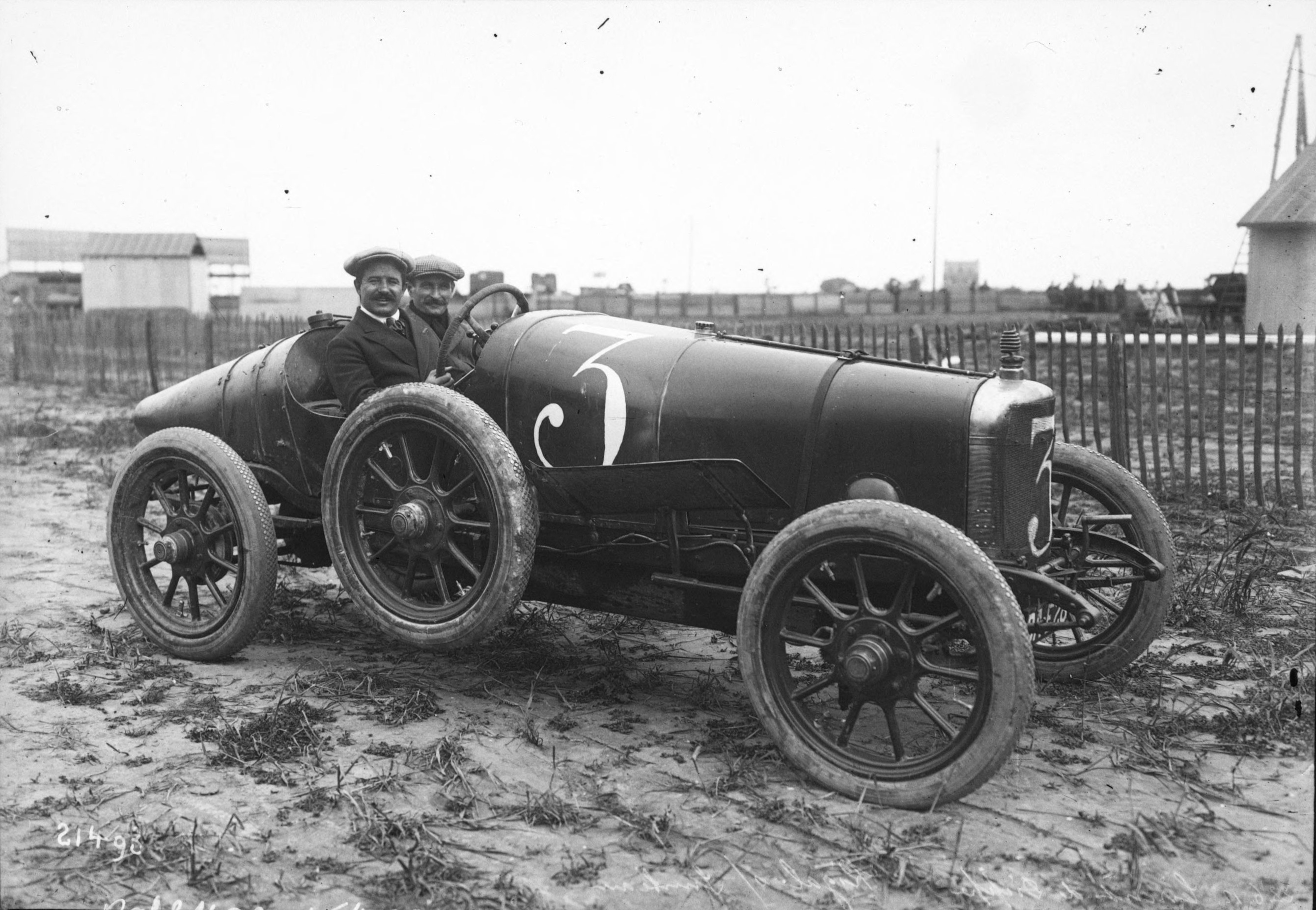 Victor Rigal in his Sunbeam at the 1912 French Grand Prix at Dieppe.